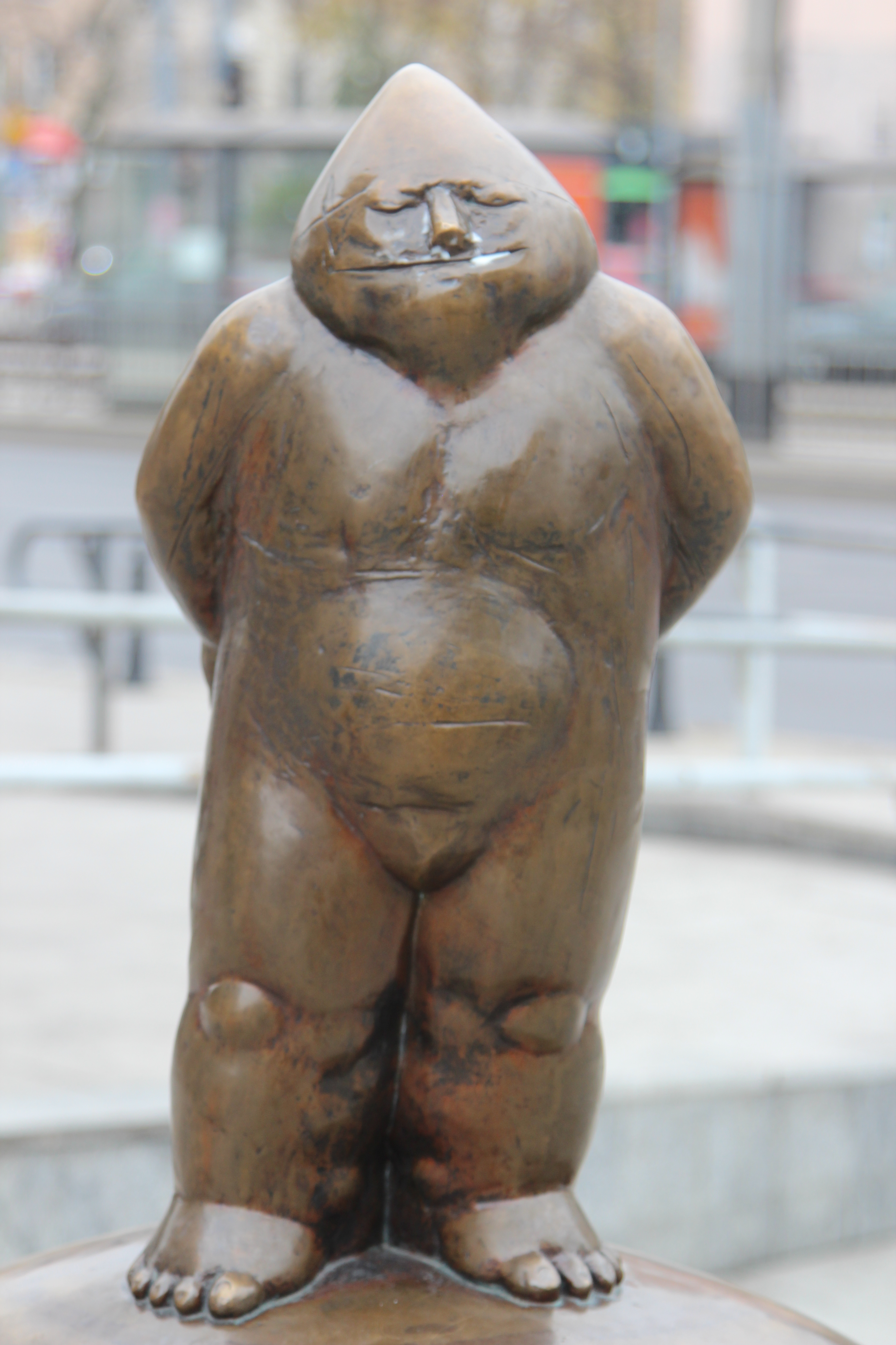 Papa Dwarf (Papa Krasnal) dwarf from Świdnicka.